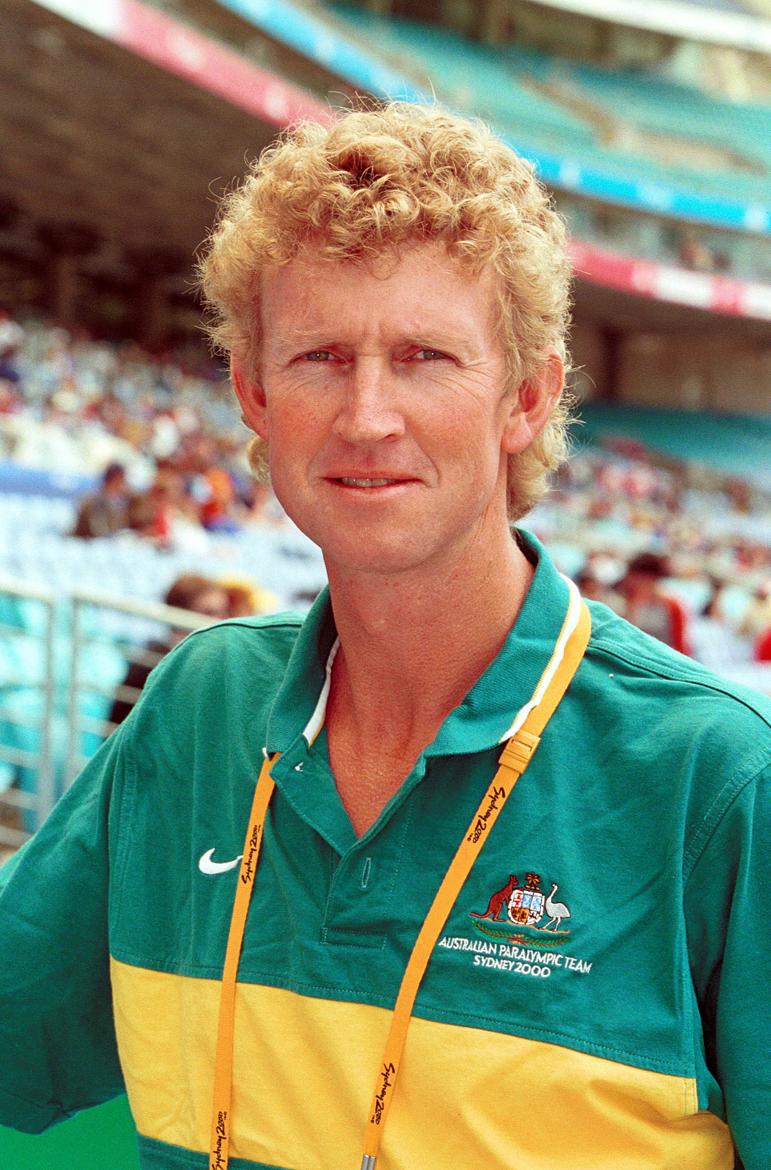 Head shot of Australian athletics head coach Chris Nunn at the 2000 Sydney Paralympic Games